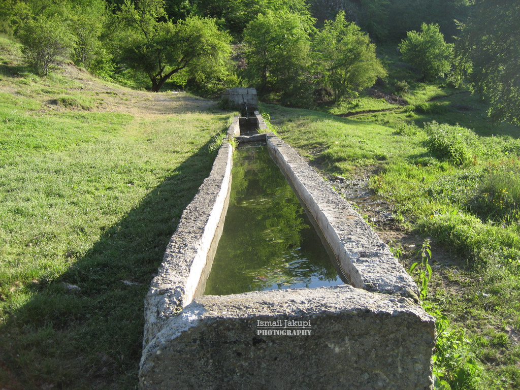 Krojluzja - Burim uji i cili derdhet në basenin kryesor të Brrutit